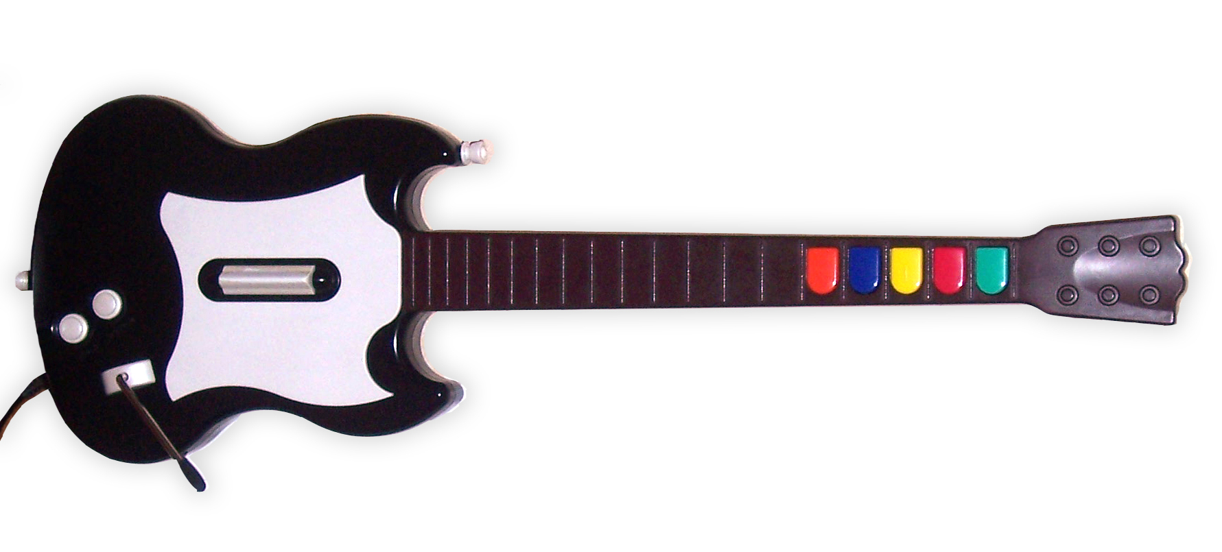 Self-taken photo of Guitar Hero Gibson SG guitar controller. I release it into the public domain. Guitar controller Guitar Hero 1